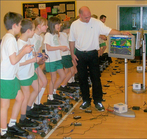 Used here with the GameCube and PS2 as additional exercise for pupils, the GZ Sport is all about having fun and getting fitter by using games to take your mind off the exercise. Photo taken in Hilton, England, UK.